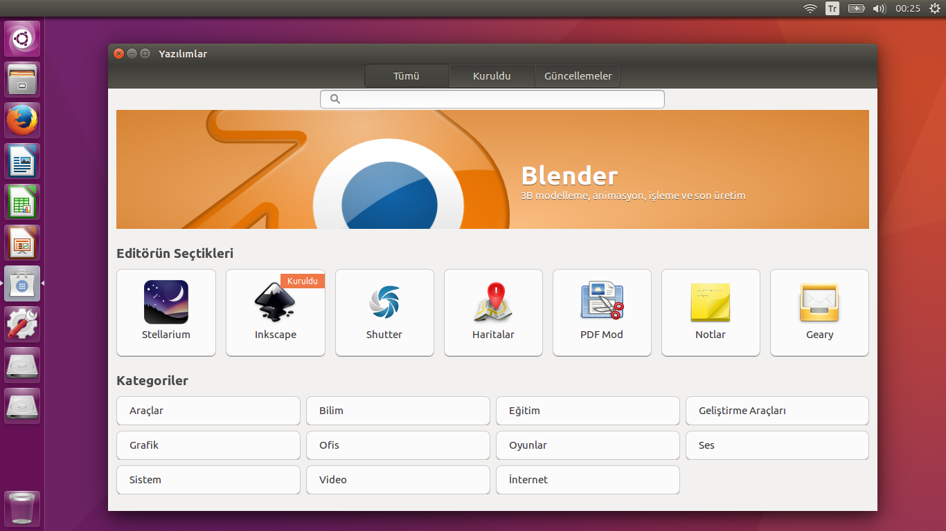 GNOME Software screenshot on Ubuntu 16.04